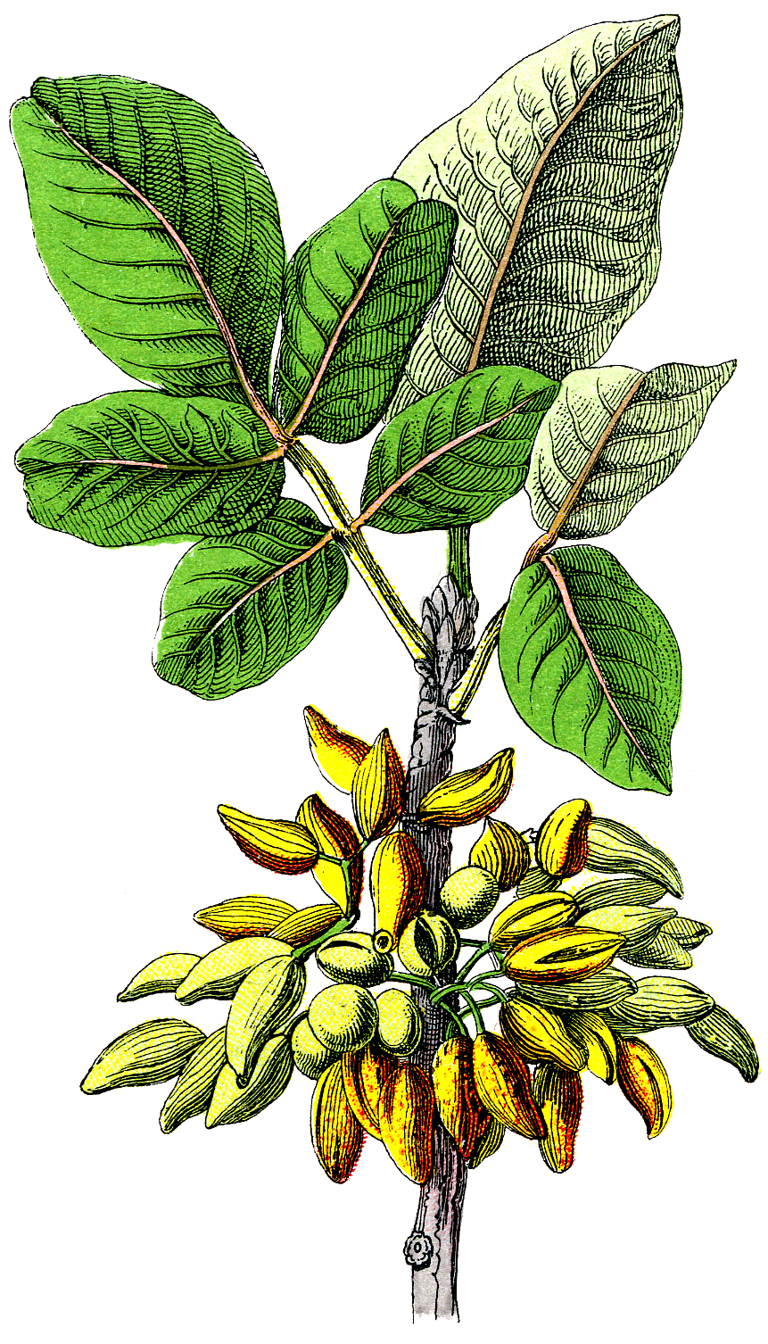 Pistacia vera, illustration from «Naturgeschichte des Pflanzenreichs», table XLIX (fragment)